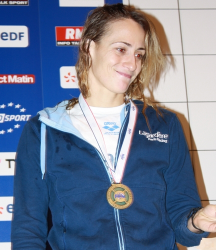 Camelia Potec aux Championnats de France en petit bassin 2011